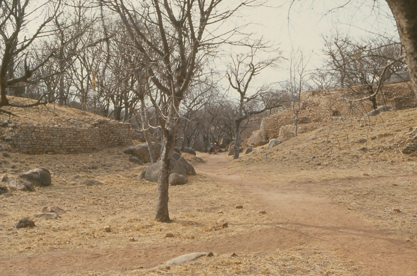 Khami ruins near Bulawayo in october (short before the onset of rainy season)